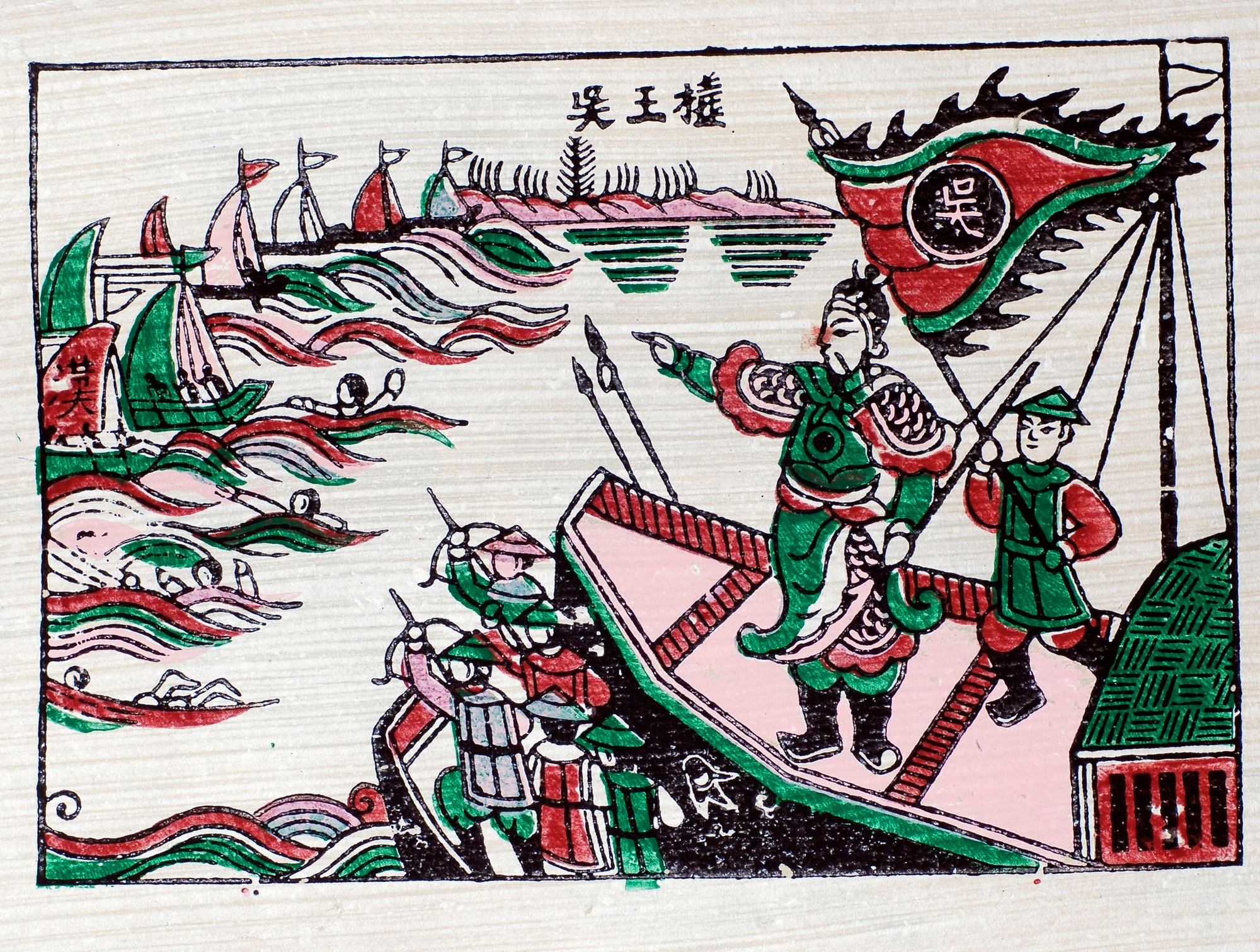 A woodblock print, produced by artisans from the village of Dong Ho in North Vietnam.